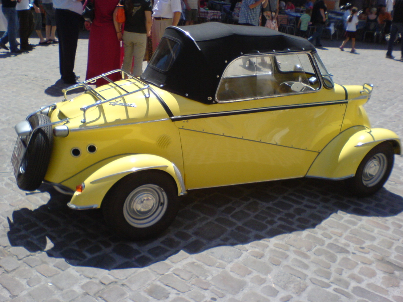 Messerschmitt Cabin Scooter Tg 500